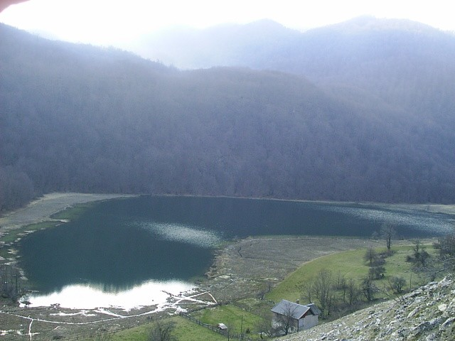 Crvanjsko lake near Ulog, BiH